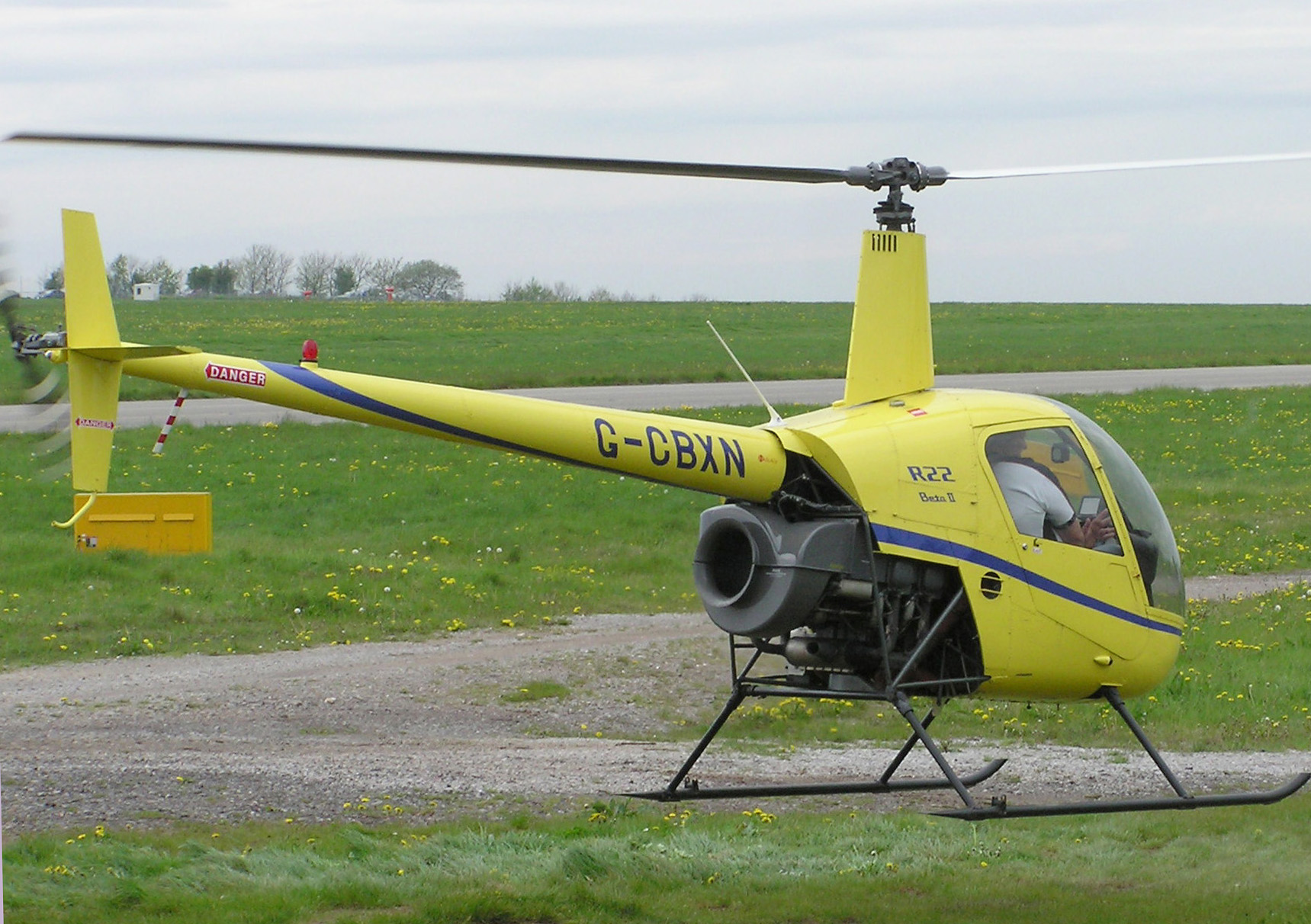 Robinson R22 Beta II helicopter (G-CBXN, built 2002) in the hover at Bristol International Airport, Bristol, England. Photographed by Adrian Pingstone in May 2005 and released to the public domain.